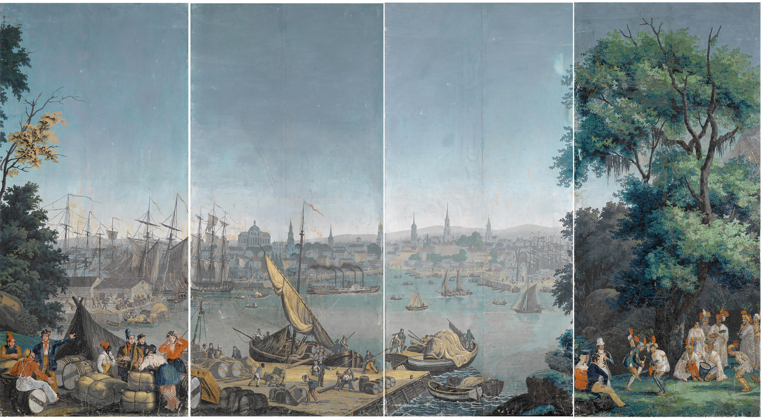 Zuber company's wallpaper series "Scenes from North America", exhibited at the 1834 Paris Exposition des produits de l'industrie française